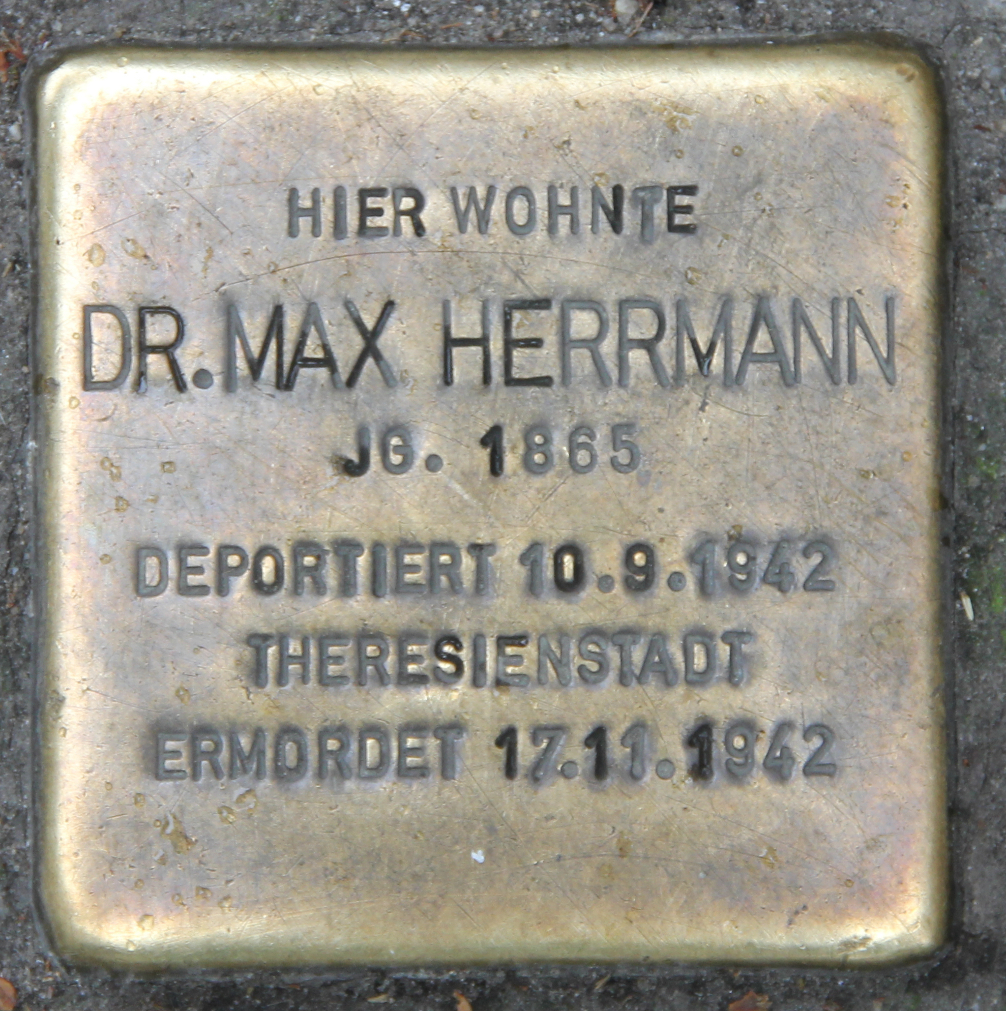 "Stolperstein" (stumbling block), Max Herrmann, Augsburger Straße 42, Berlin-Charlottenburg, Germany